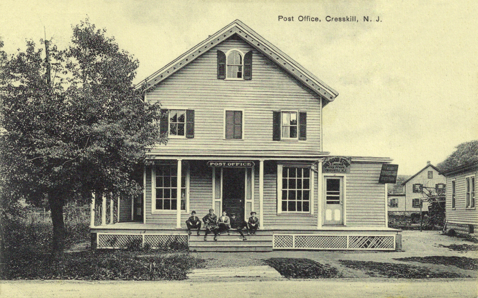 Matte black and white photo postcard of the Post Office, Cresskill, New Jersey. Back is divided and reads "No. B8034 Made in Germany" It is published by the American News Company, New York. Its logo on the back of a shamrock is surrounded by the word "EXCELSIOR" and underneath "Leipzig Dresden Berlin". It bears a cancelled one-cent stamp of George Washington